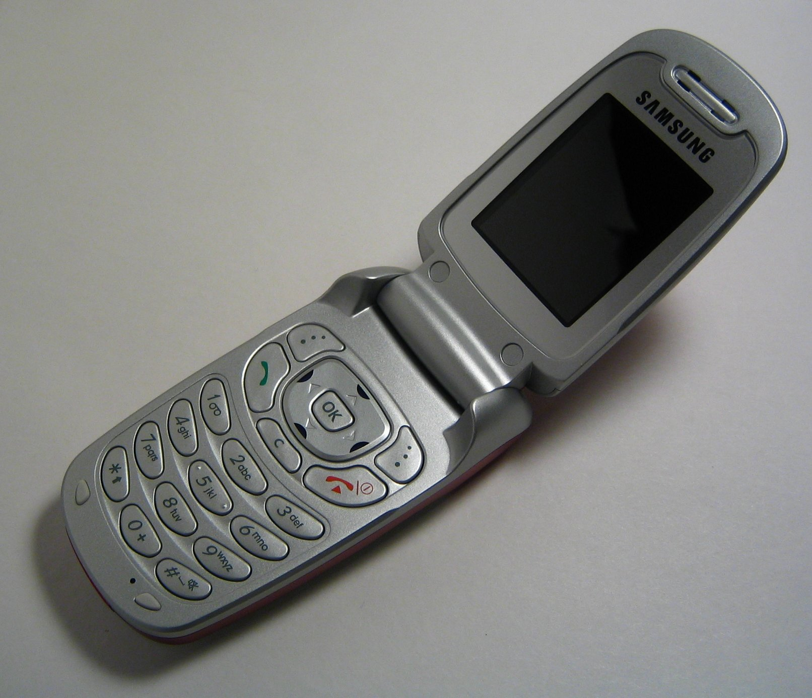 A Samsung SGH-T209, sold by T-Mobile for T-Mobile To Go pay as you go service.